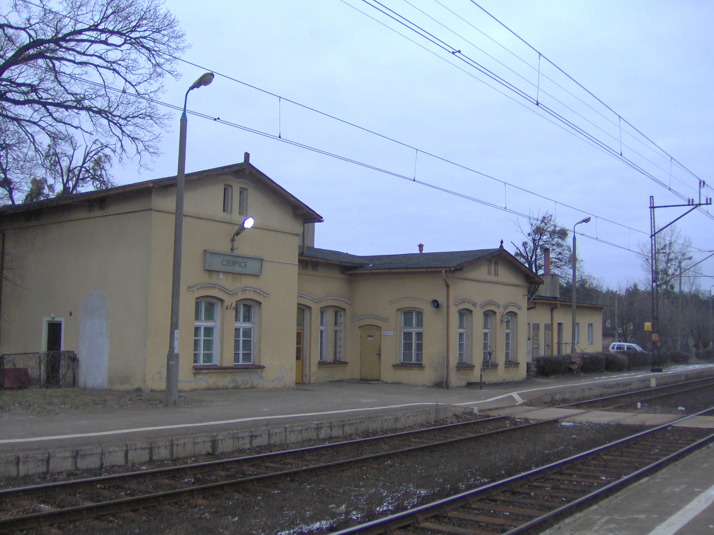 Railway station in Cierpice